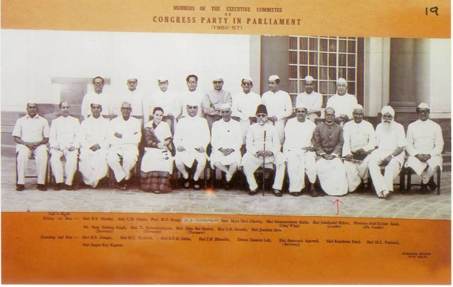 Tekur Subramanyam with members of executive committee of congress party in parliament 1956-57